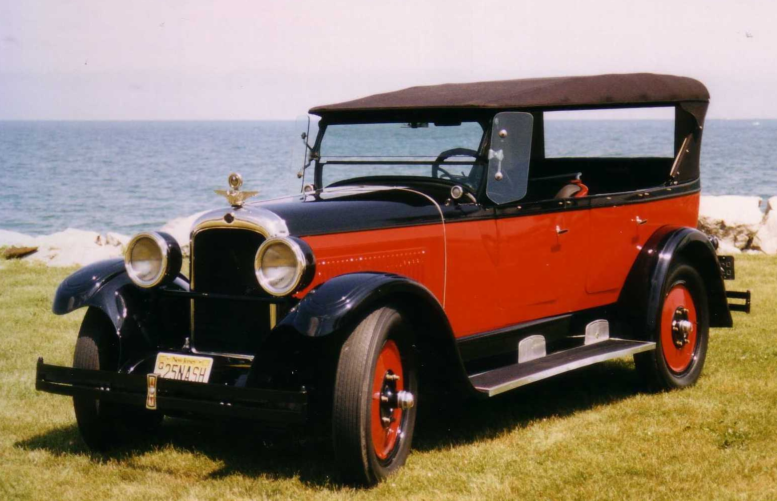 1925 Nash automobile - finished in 2-tone red and black. Photograph taken at a antique car show in Kenosha, Wisconsin USA.